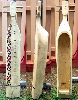 Front, side and back views of a Sape.